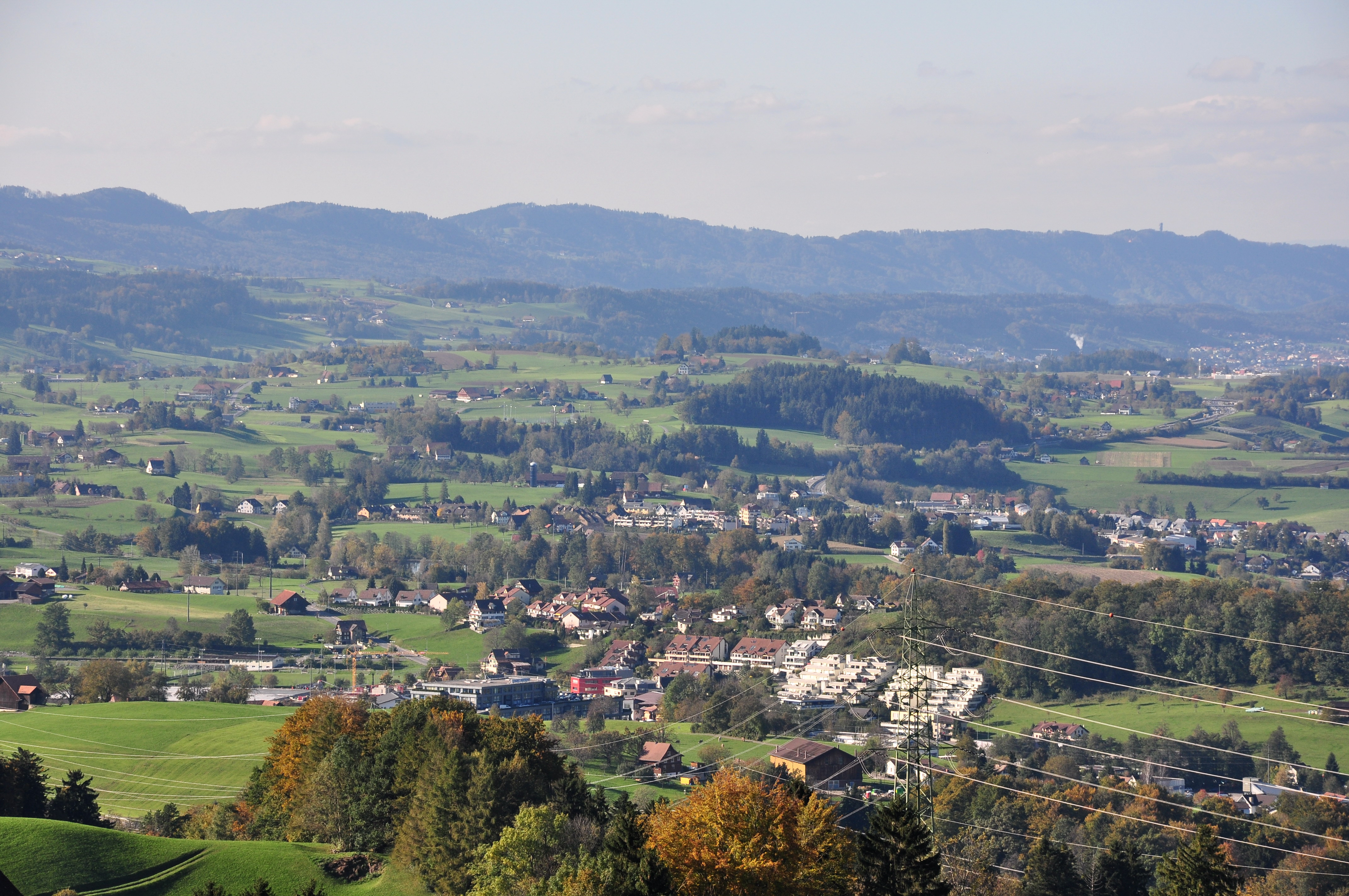 Samstagern and Wollerau (separated by the highway) on Zimmerberg plateau, as seen from Feusisberg (Switzerland) towards Etzel mountain, (from the left:) Albis chain with Felsenegg and Sihltal valley in the background.